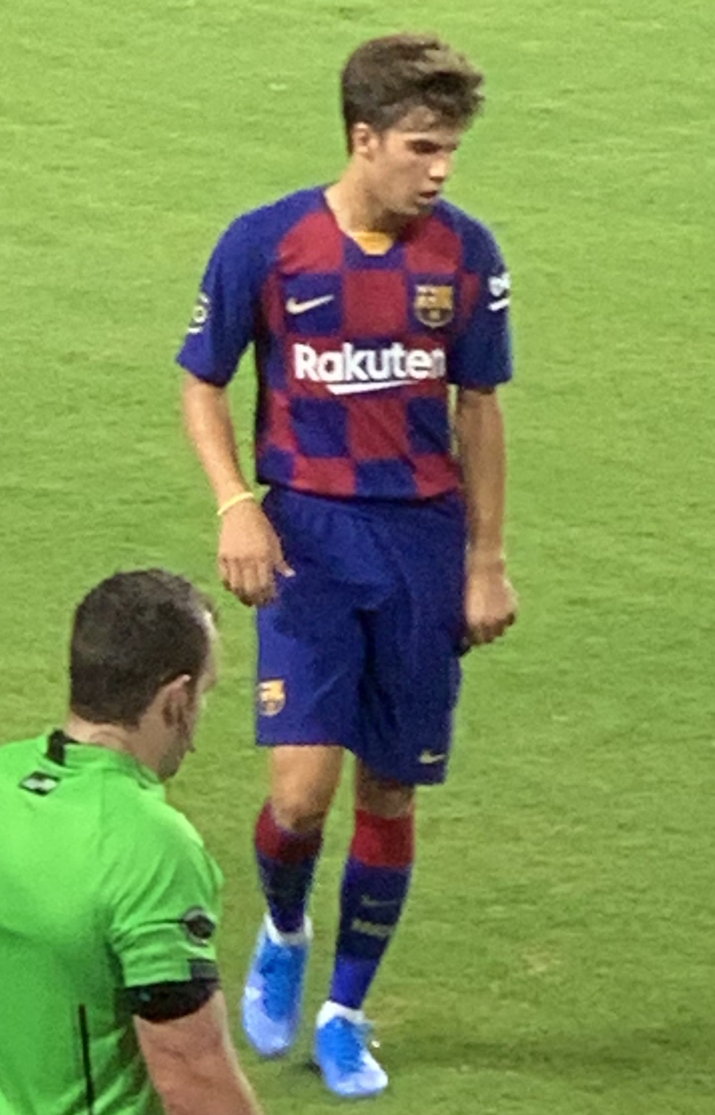 Barcelona friendly against Napoli in Miami, Florida.